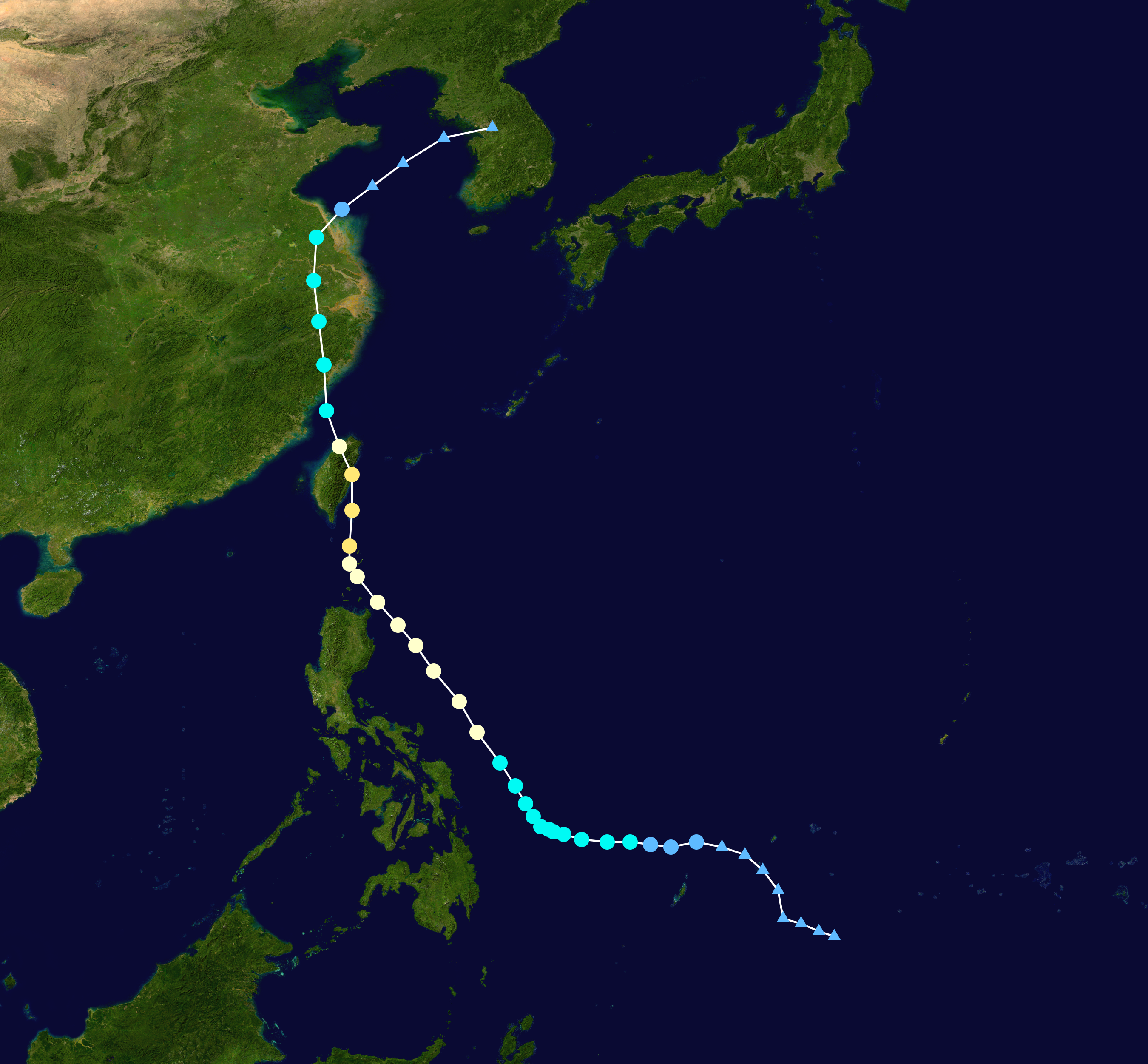 Typhoon Ofelia 1990 track. Uses the color scheme from the Saffir-Simpson Hurricane Scale.